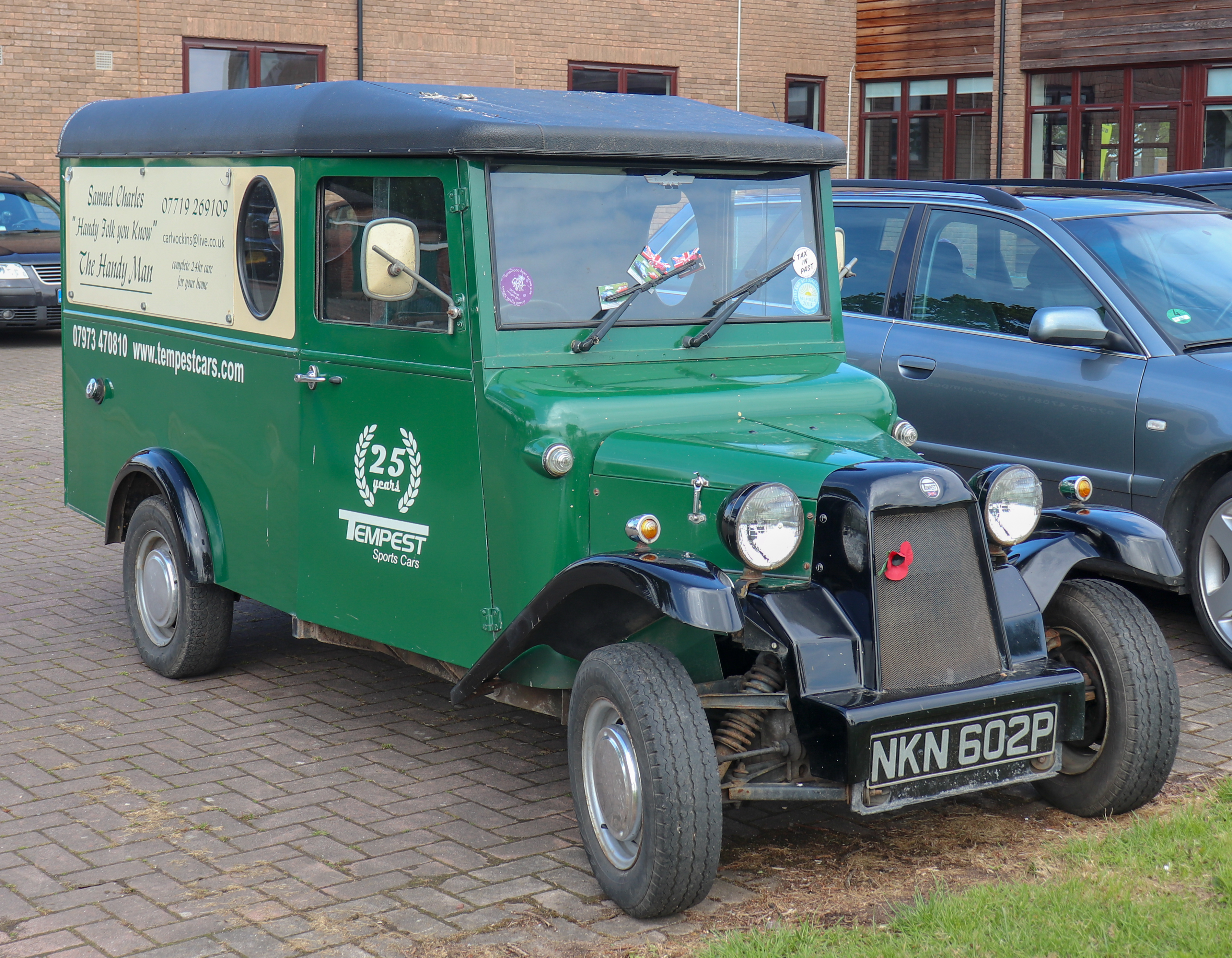 1976 (Donor) Tempest Vantique 850cc Front Taken at the Stoneleigh National Kit Car Motor Show 2019